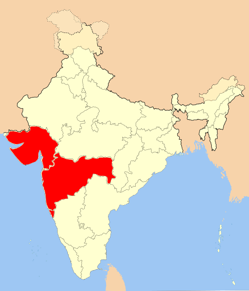 Map of states in Western India